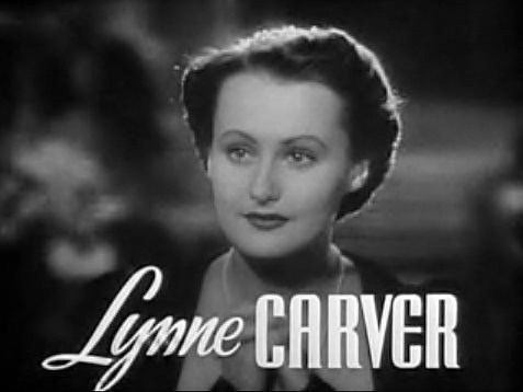 Lynne Carver. Screenshot from the trailer for Madame X (1937 film). Trailers from before 1964 are in the pblic domain.